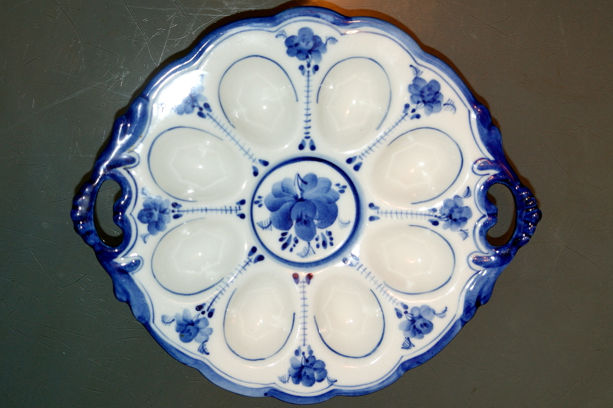 A plate for eggs, Gzhel ceramics factory, Russia. Porcelain. Glaze is on top of the paining. 100 % handwork. Size 23 x 20 cm (9 x 8 in.). Author T. Dunashova. Private collection.